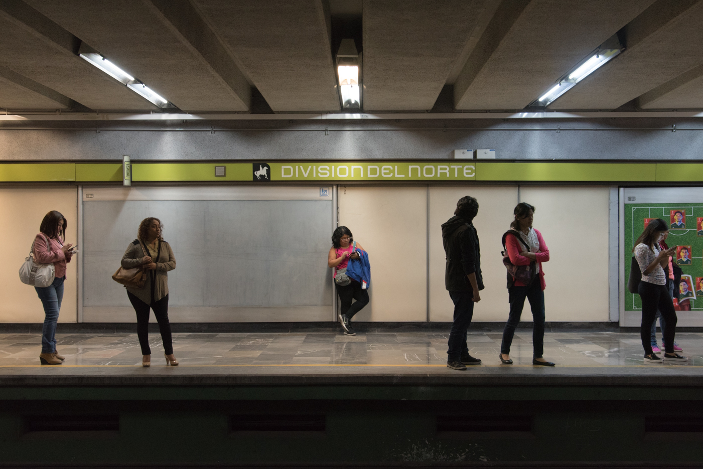 Platform of the Mexico City's Metro División del Norte station.